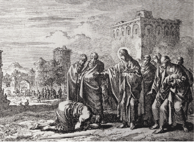 Christ cleanses a leper. Jan Luyken. In the Bowyer Bible in Bolton Museum, England. Print 4878. From “An Illustrated Commentary on the Gospel of Mark” by Phillip Medhurst. Section D. Jesus confronts uncleanness. Mark 1:21-45, 2:1-12, 5:1-20, 25-34, 7:24-30.